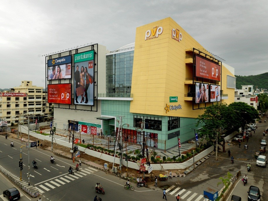 Exterior View of PVP Square